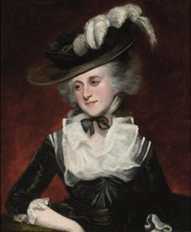 Mary Palmer (d.1820), later Countess of Inchquin and Marchioness of Thomond, painted by her uncle Sir Joshua Reynolds.